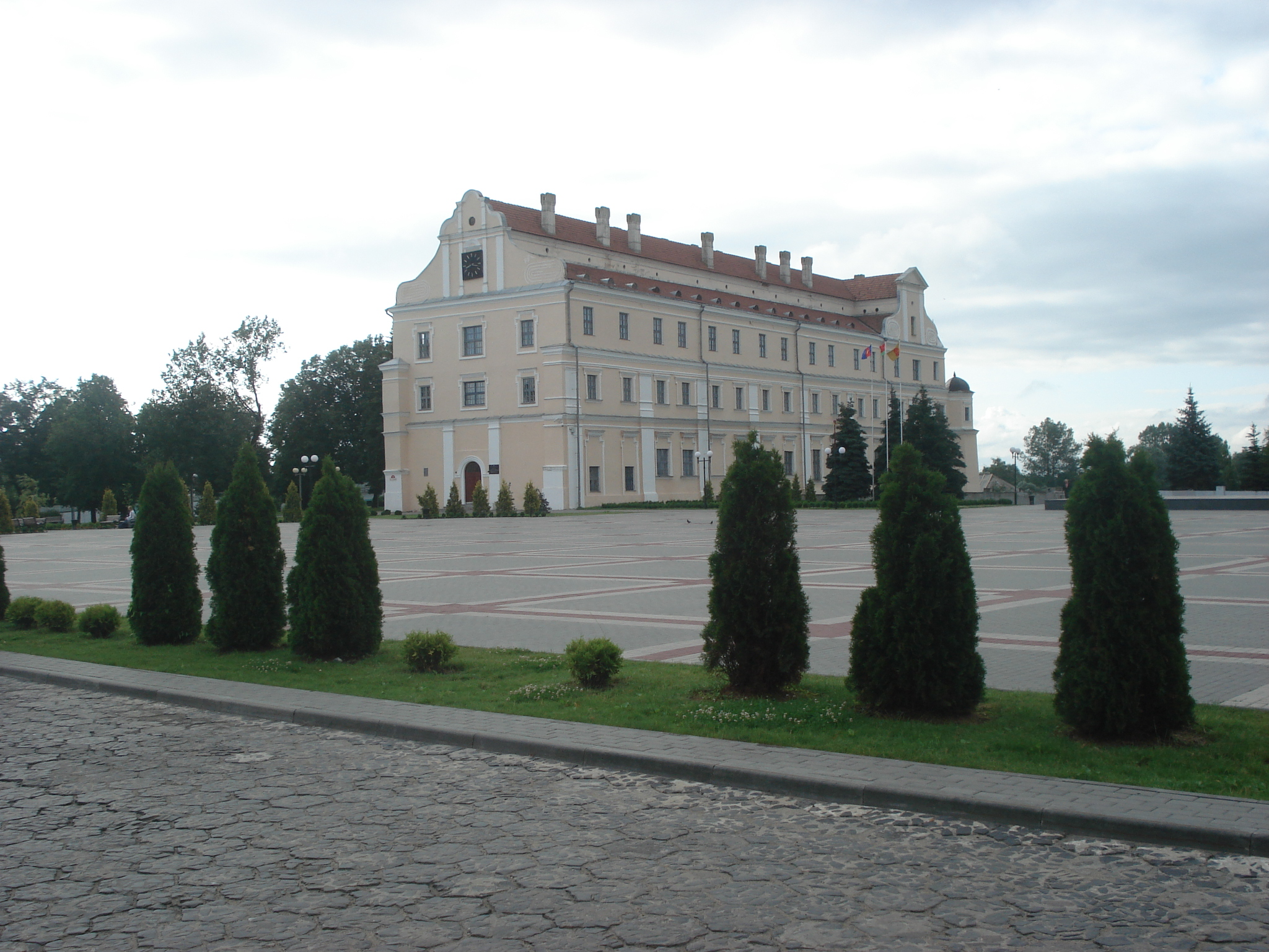 Jesuit Collegium, Pinsk